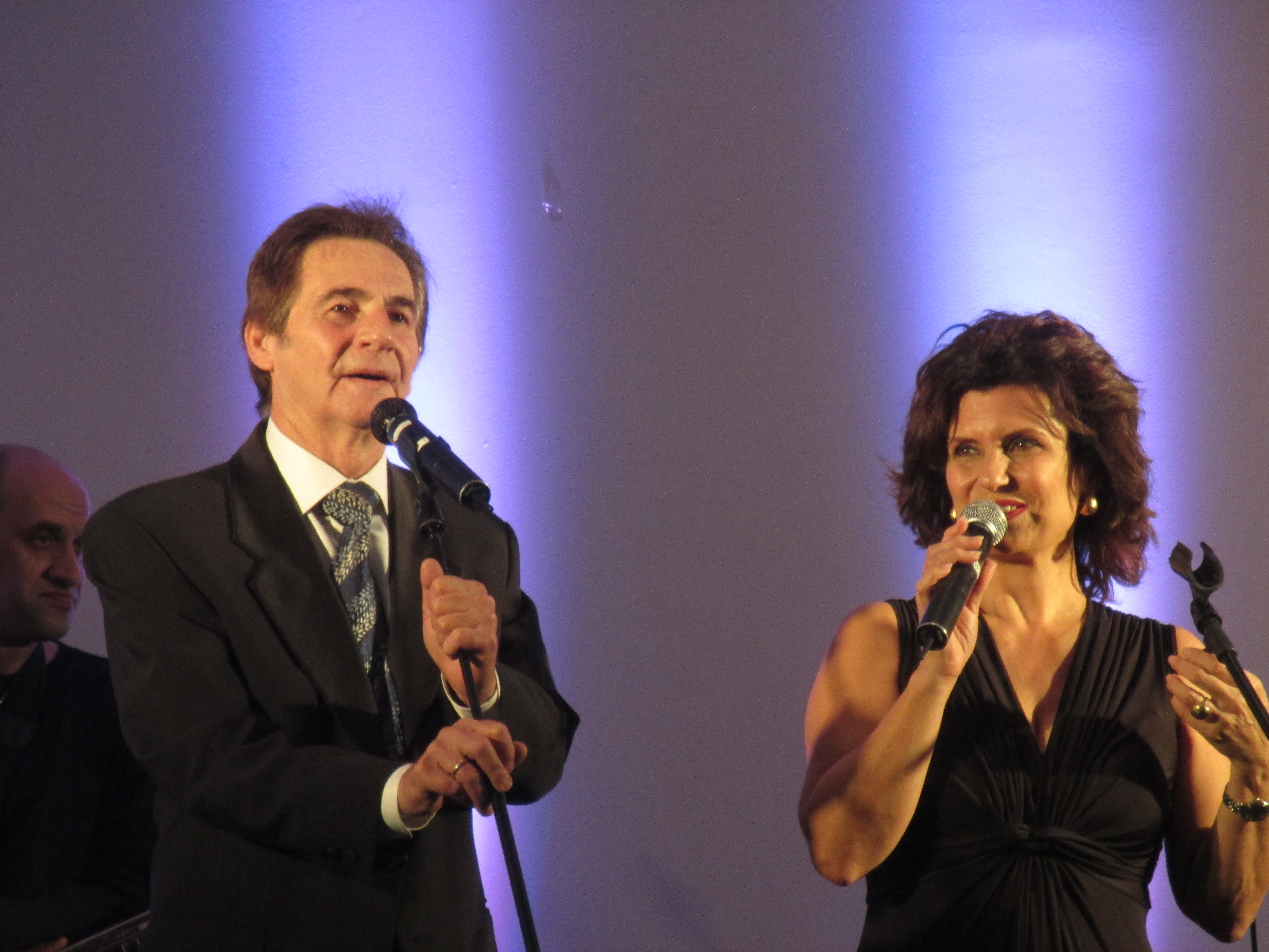 Moti Giladi and Osnat Vishinsky